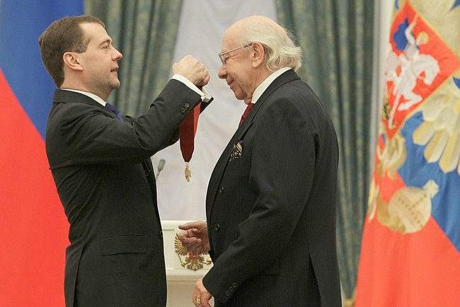 Russia president Dmitry Medvedev and conductor Gennady Rozhdestvensky